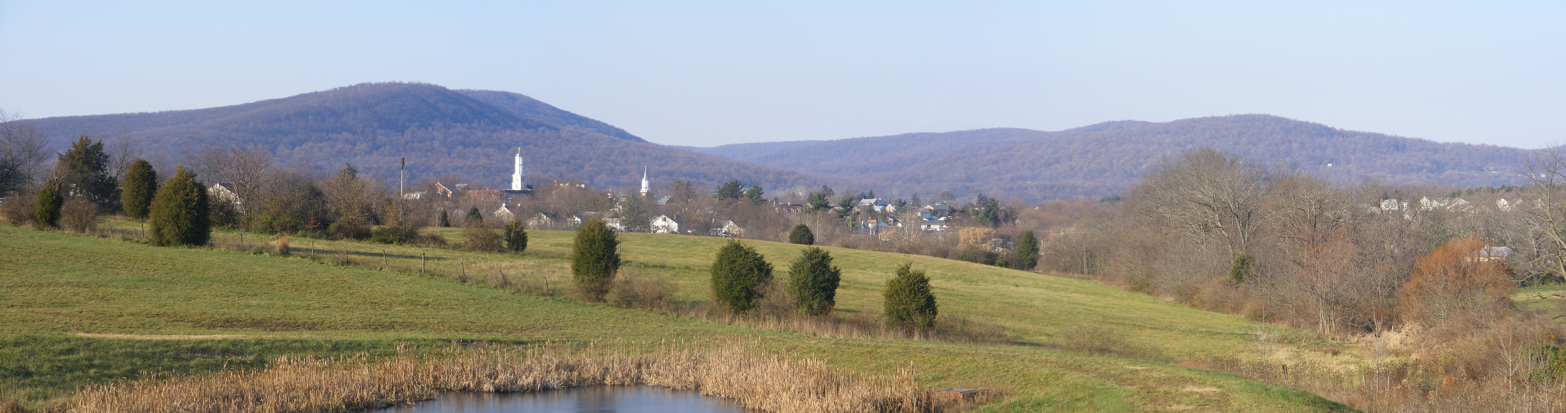 Emmitsburg, MD Panorama from US-15 Rest Area